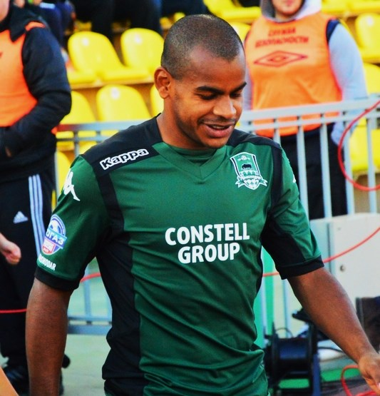 João Natailton Ramos dos Santos